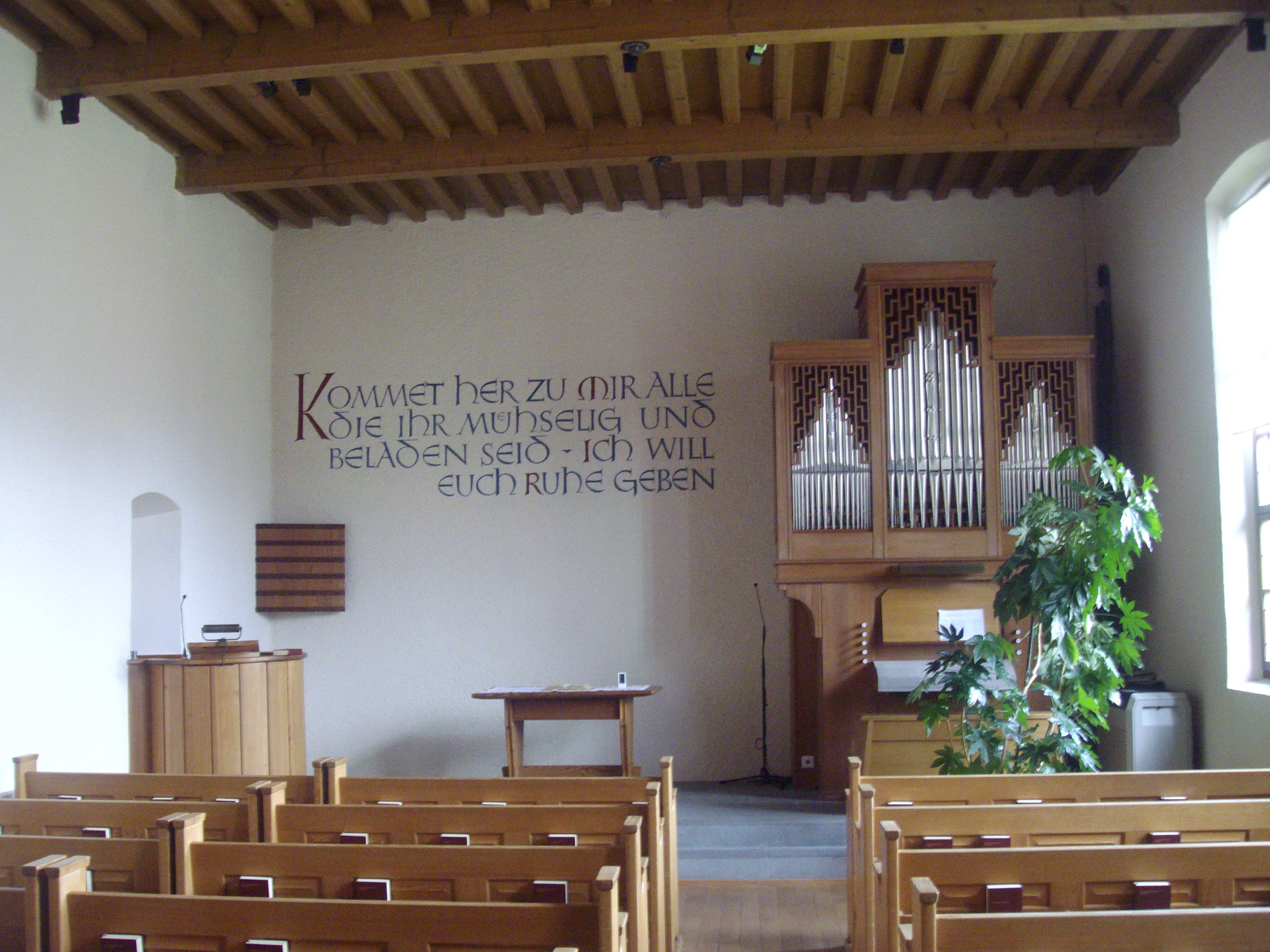 Innenraum der reformierten Kirche Einsiedeln